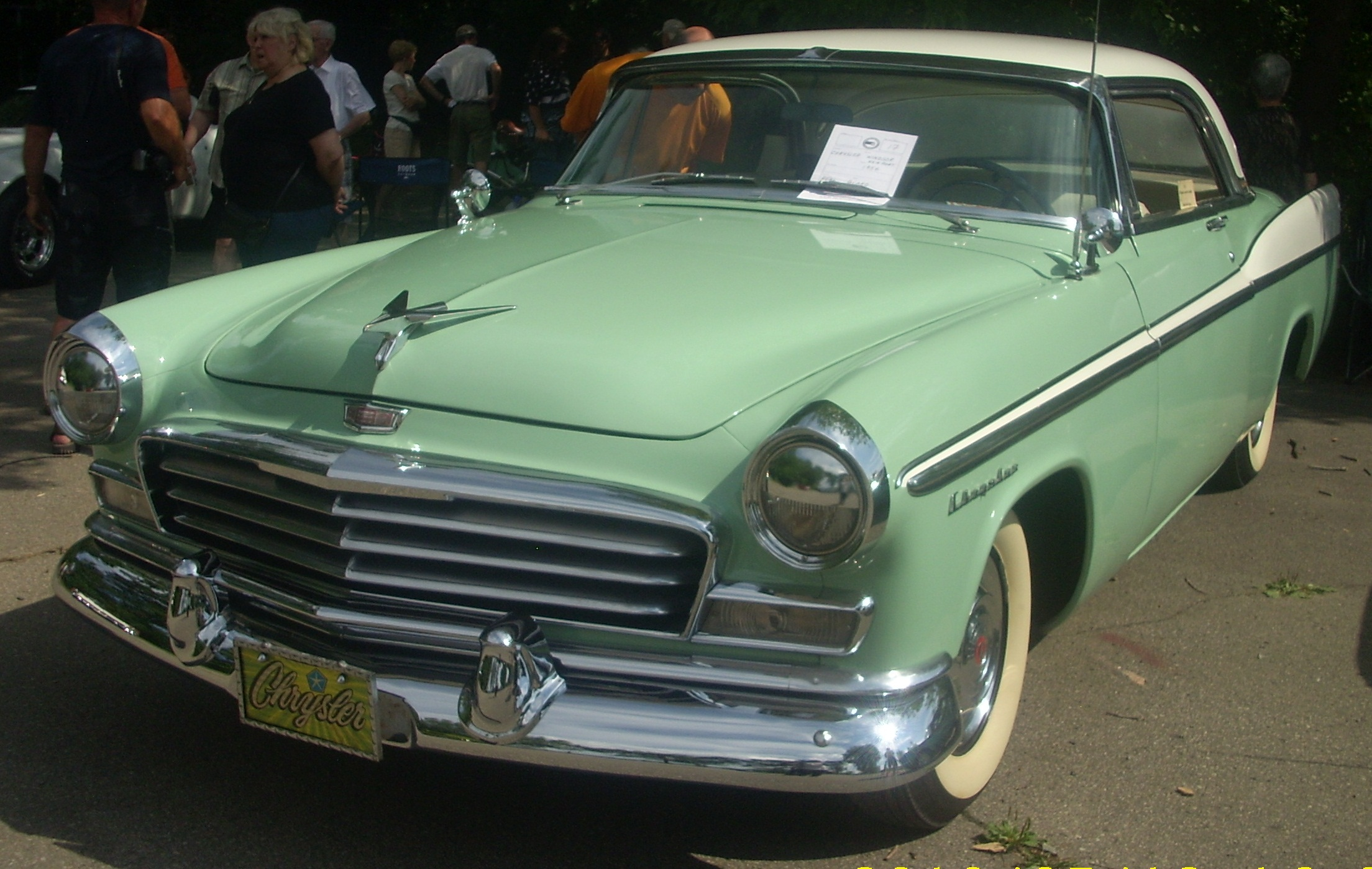 1956 Chrysler Windsor photographed in Laval, Quebec, Canada at Auto classique Laval 2010.